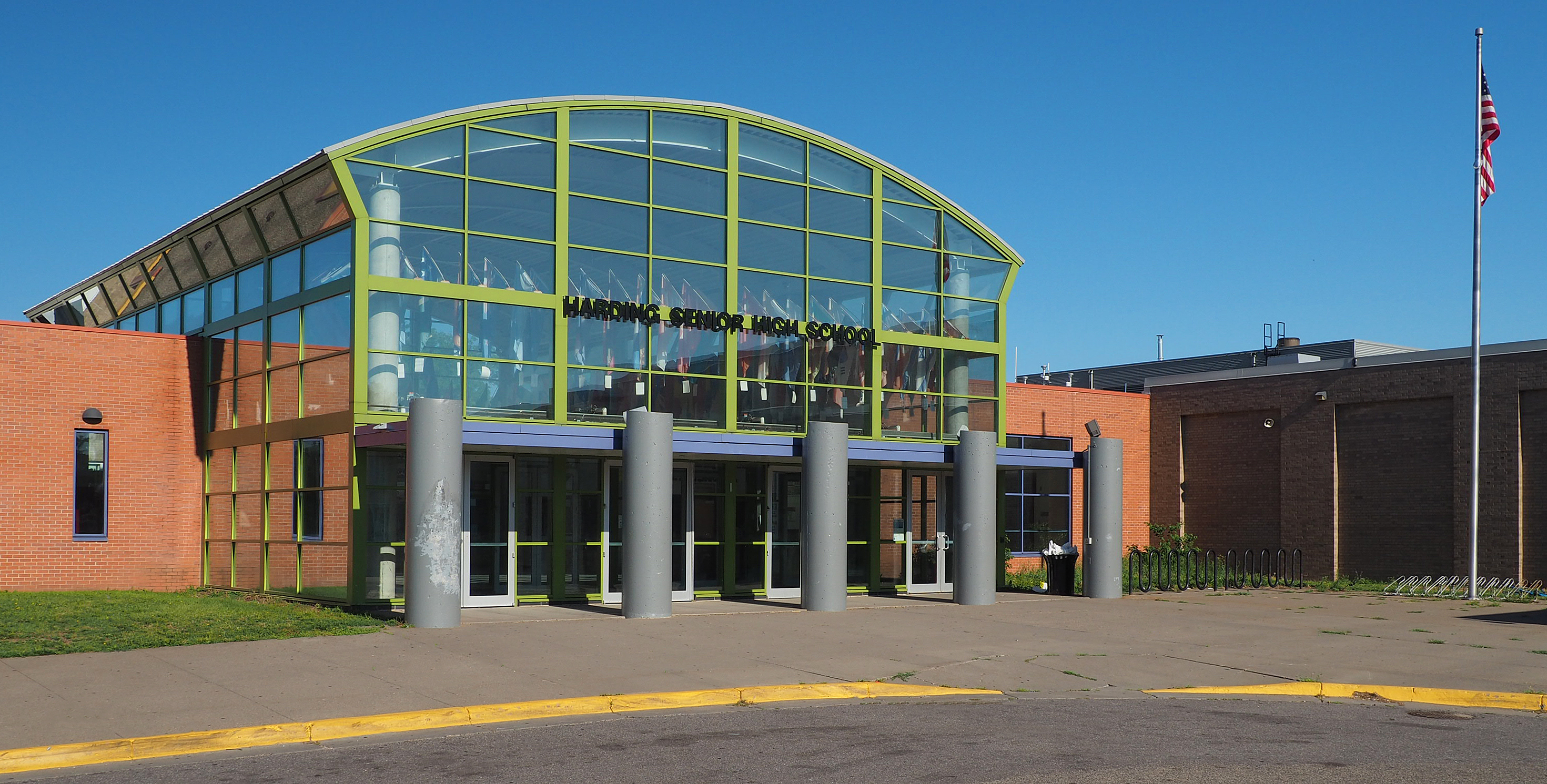 Harding Senior High School, 1540 E 6th St, St Paul, Minnesota, USA. Viewed from the southeast.